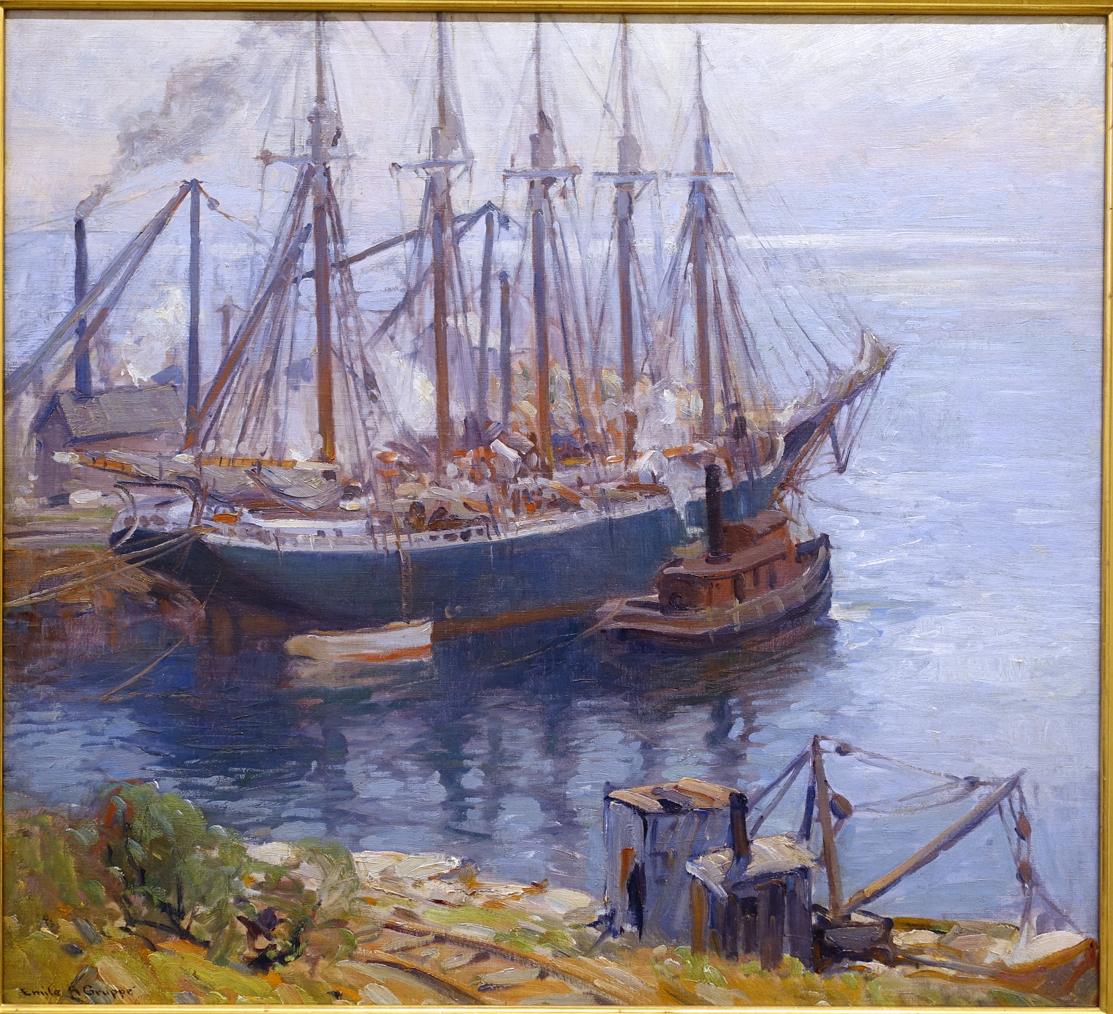 Exhibit in the Cape Ann Museum - Gloucester, Massachusetts, USA.